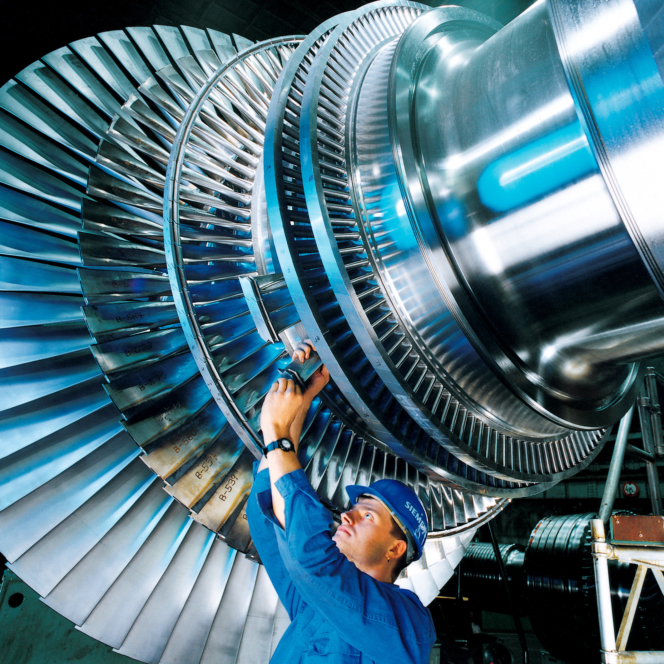 Steam turbine rotor produced by Siemens, Germany